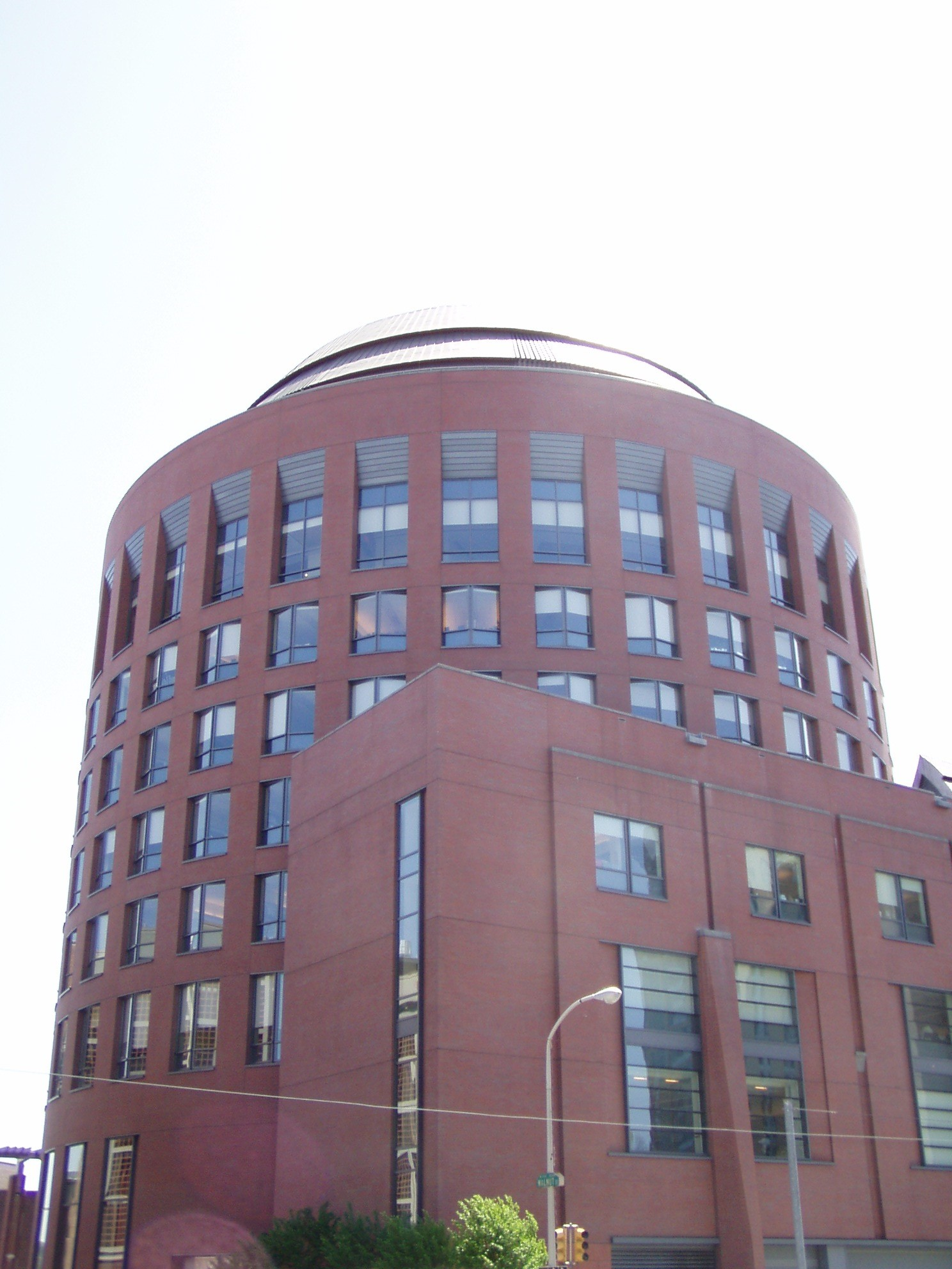 Taken in Philadelphia, Pennsylvania, in April 2006. Jon Huntsman Hall, home of the Wharton School of the University of Pennsylvania.